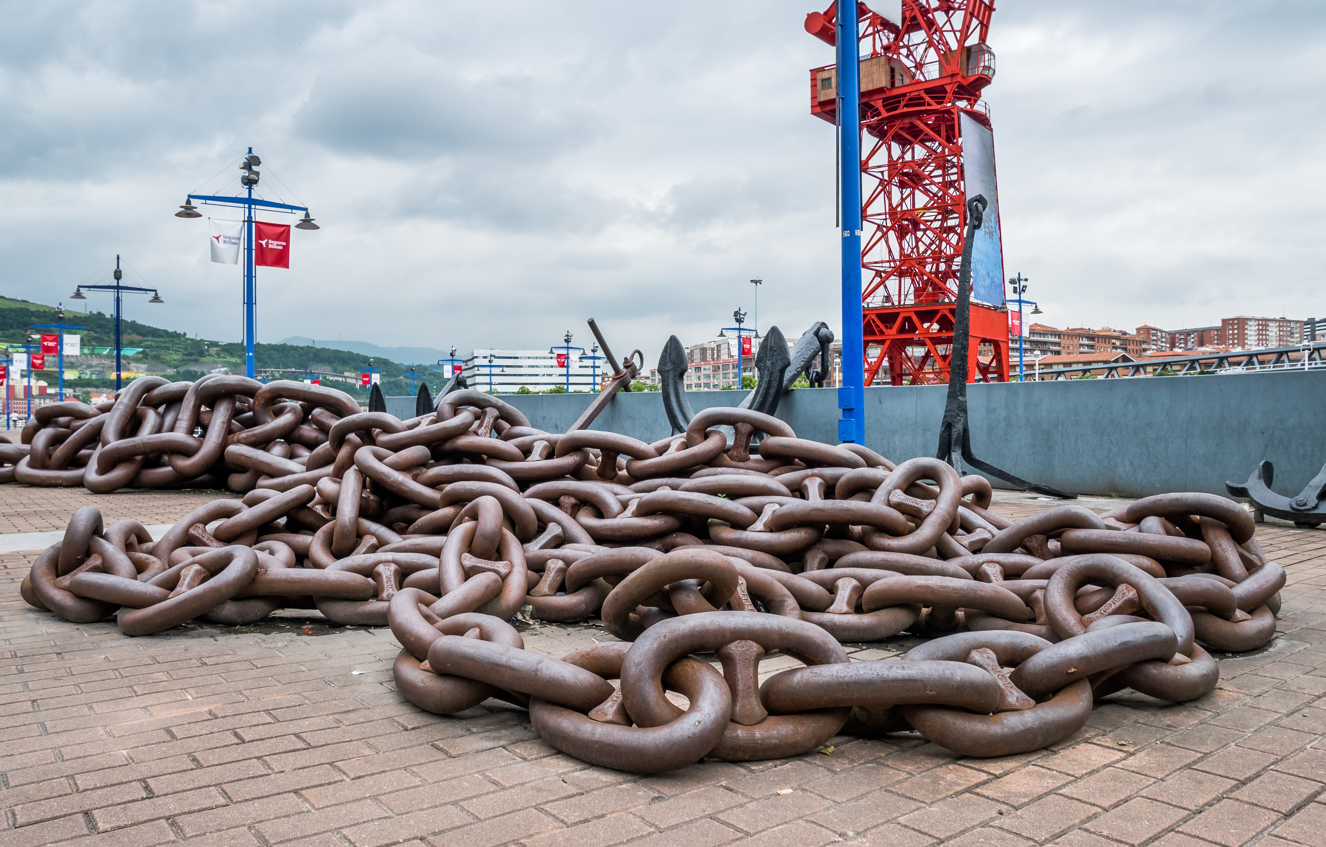 Ship anchor chain in front of the Naval Museum. Bilbao, Biscay, Spain